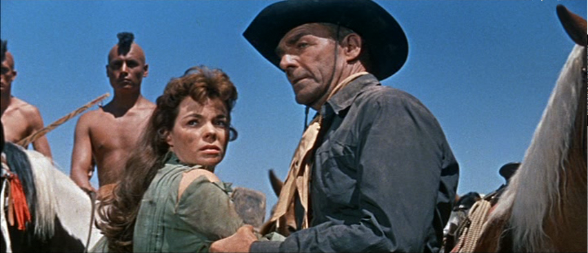 Nancy Gates and Randolph Scott in Comanche Station (1960)